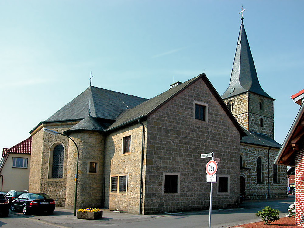 Church of sacred Urban